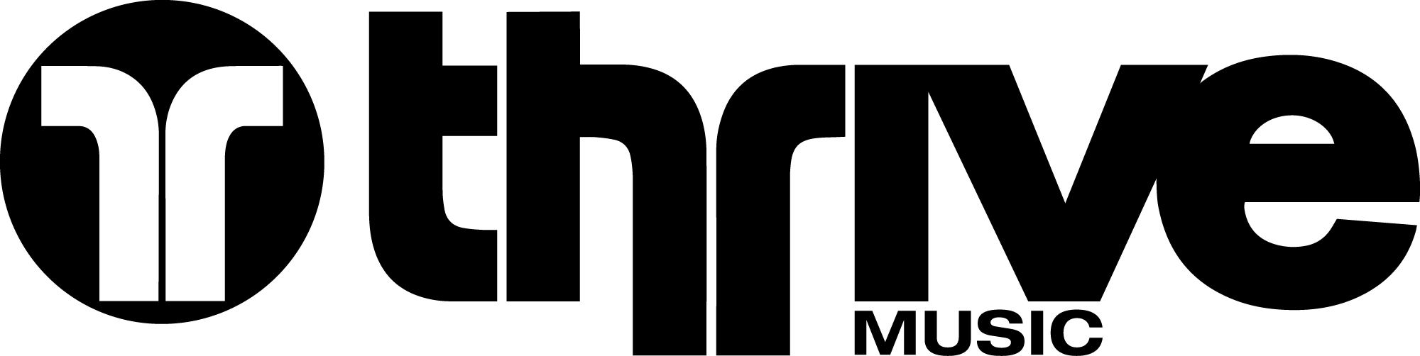 Thrive Music logo.